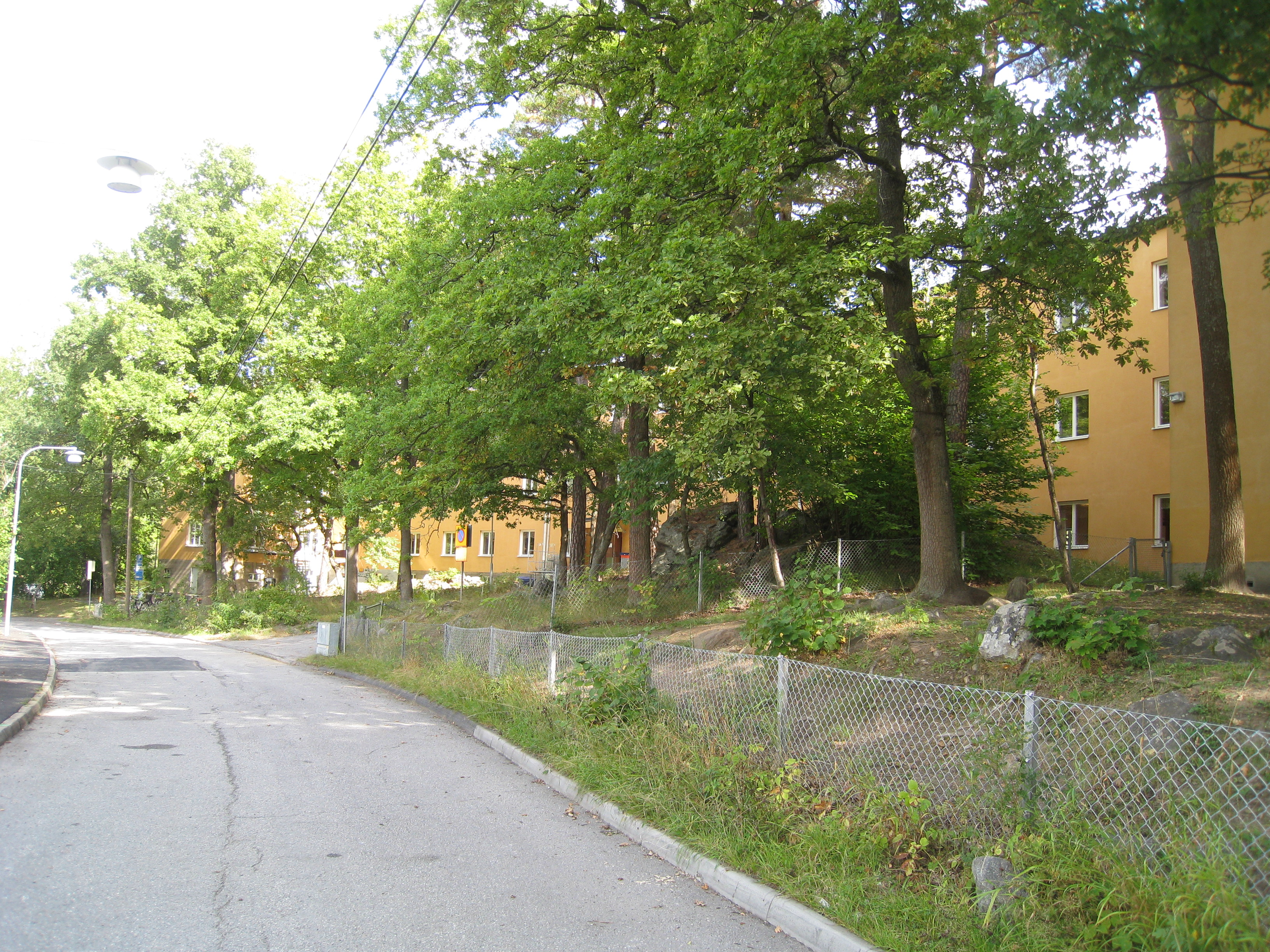 Olovslundsskolan i Olovslund, Bromma. Vy från Åkerslundsgatan. Skolan ligger på Gustav III:s väg 59-61, Olovslundsvägen 23 och Åkerslundsgatan 3 i Olovslund.